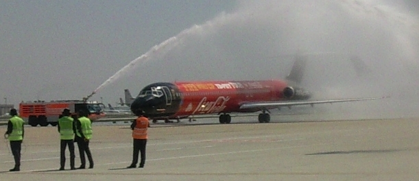 The plane carrying the World Cup arrives. Welcome party for Fifa World Cup 2010 trophy plane Atatürk Airport İstanbul